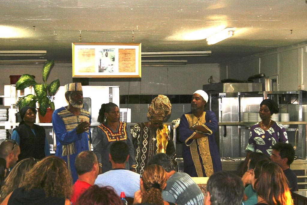 A visit in the Black Hebrews community of Dimona. The photo is taken in the community vegetarian dining hall.